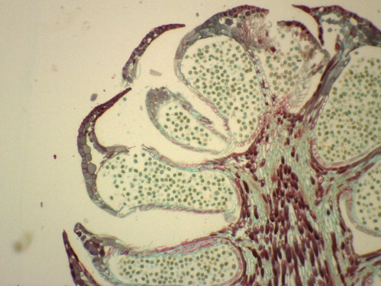 Male Gametophyte Male Gametophyte Pinus Staminate Zoomed